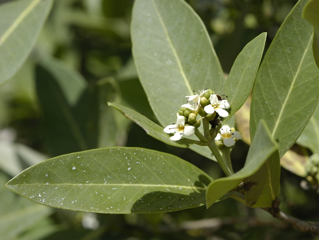 Flowering shoot of the Black Mangrove (Avicennia germinans), mangrove forest near Perimirim, Augusto Corrêa, Pará, Brazil